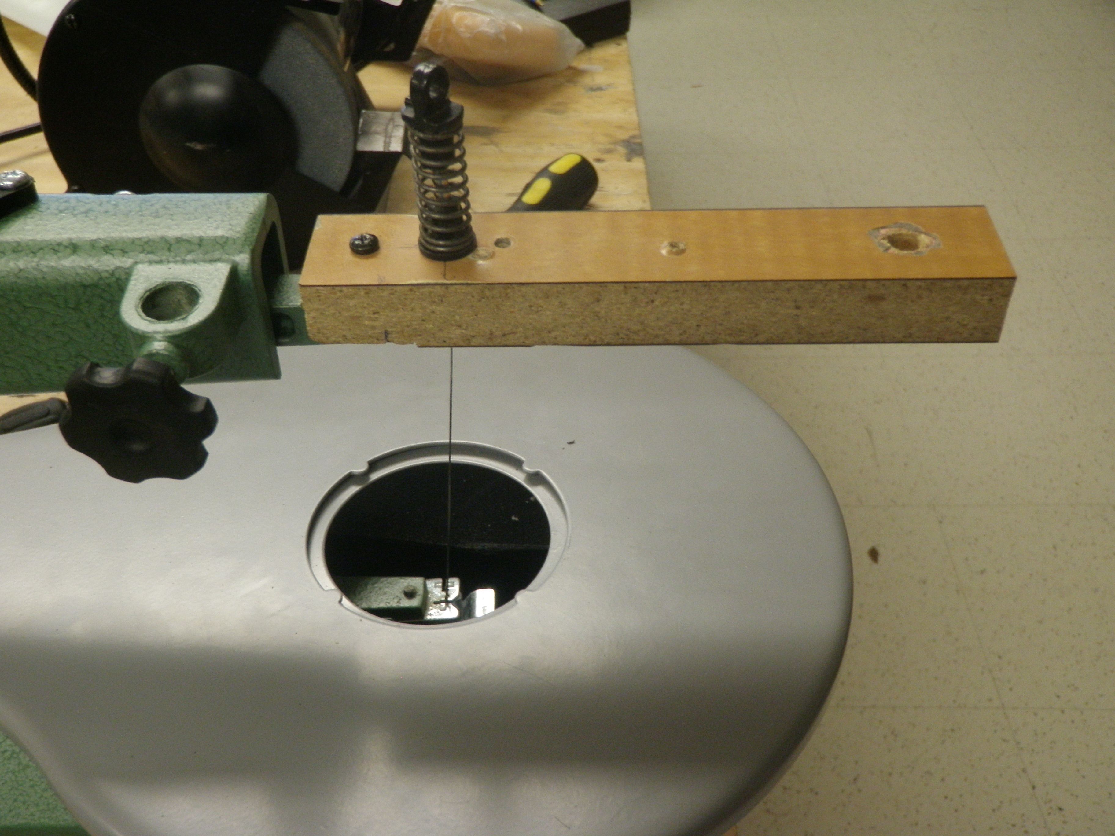 This is a support for holding the heating element of a hot wire foam cutter. It is designed to be installed on a commercially available scroll saw. It is made of particle board for electrical insulation from the scroll saw frame, and includes a coil spring in compression to compensate for thermal expansion of the wire due to heat, as well as for imperfections in the scroll saw's mechanical linkage.